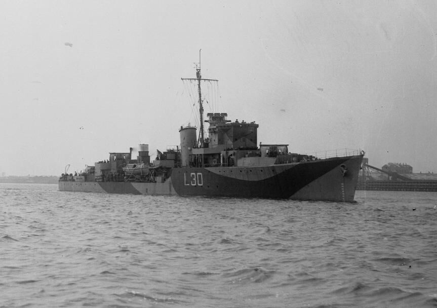 Photograph of British Hunt class destroyer HMS Blankney.